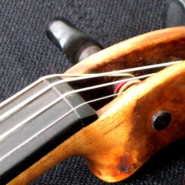 Violin neck and pegbox, cropped to show nut.